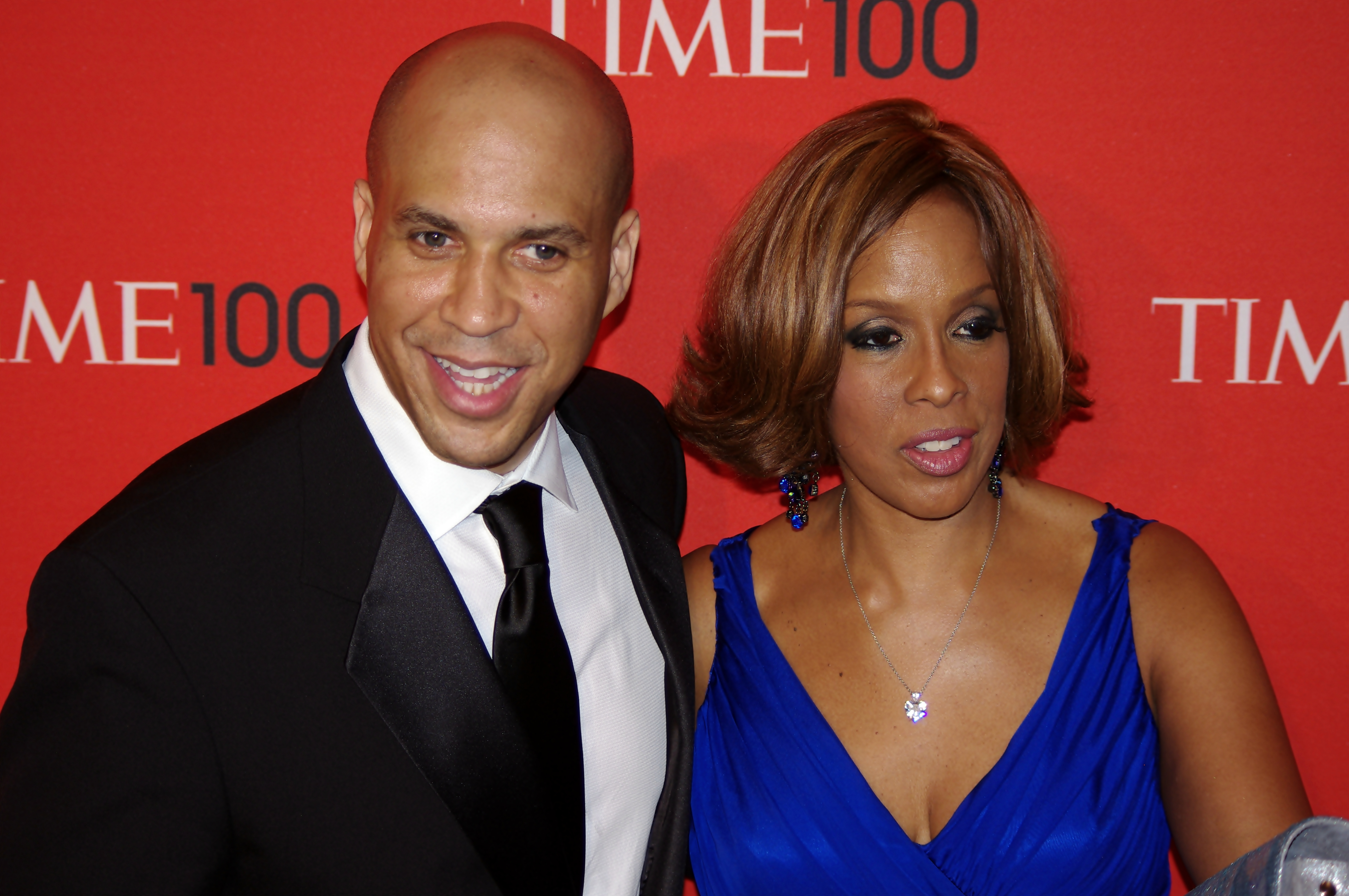 Cory Booker and Gayle King at the 2011 Time 100 gala.